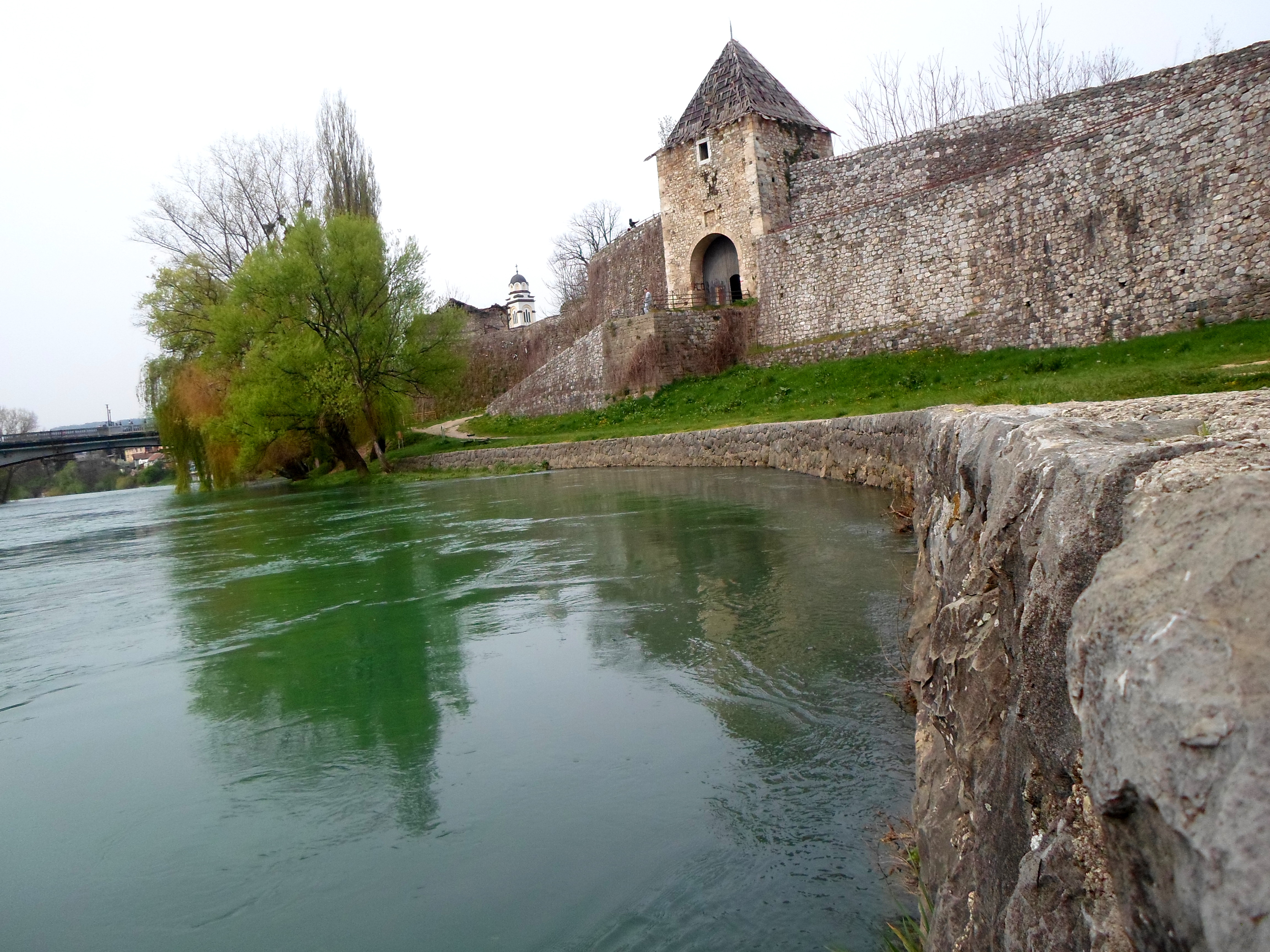 This image was uploaded as part of Trace of Soul 2016. Banjalucka tvrdjava Kastel